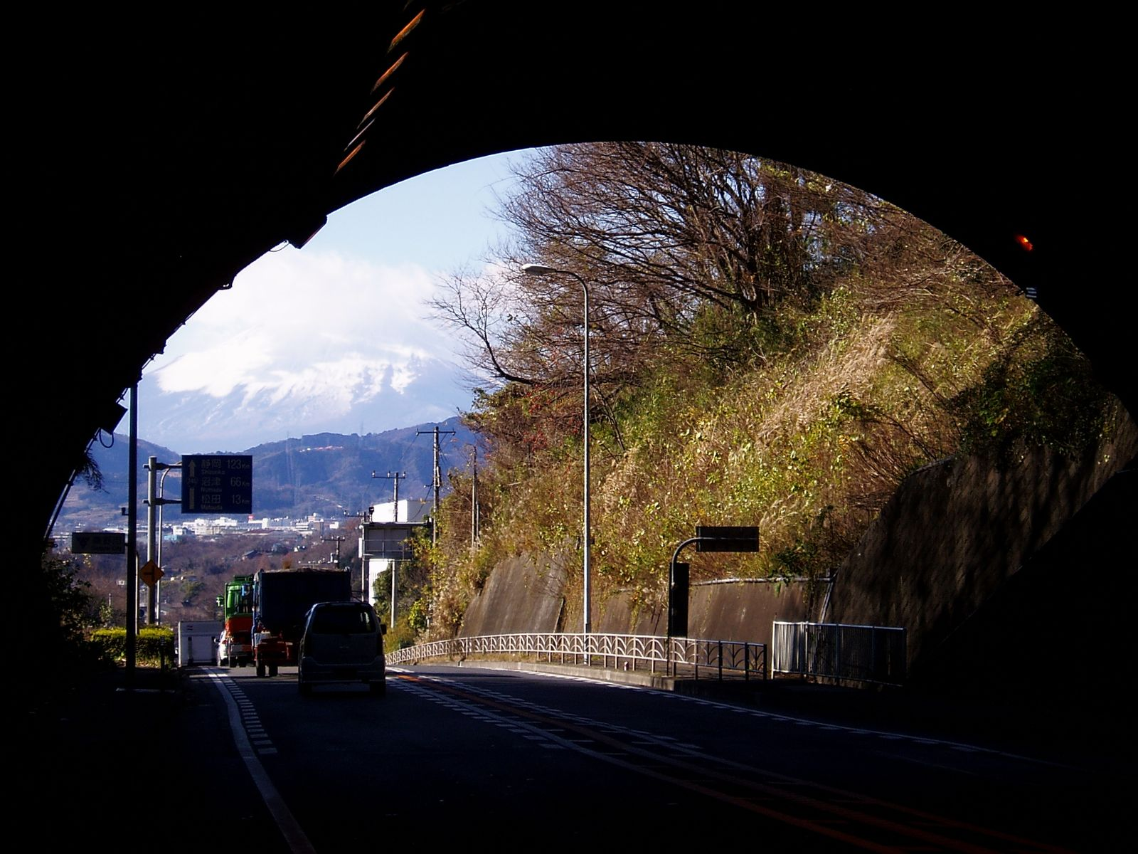 Mt.Fuji from Zemba Tunnel of the Route 246 in Japan